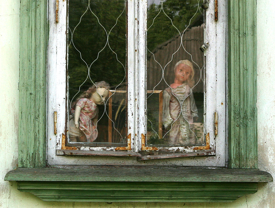 Dolls in a house window in Chernobyl